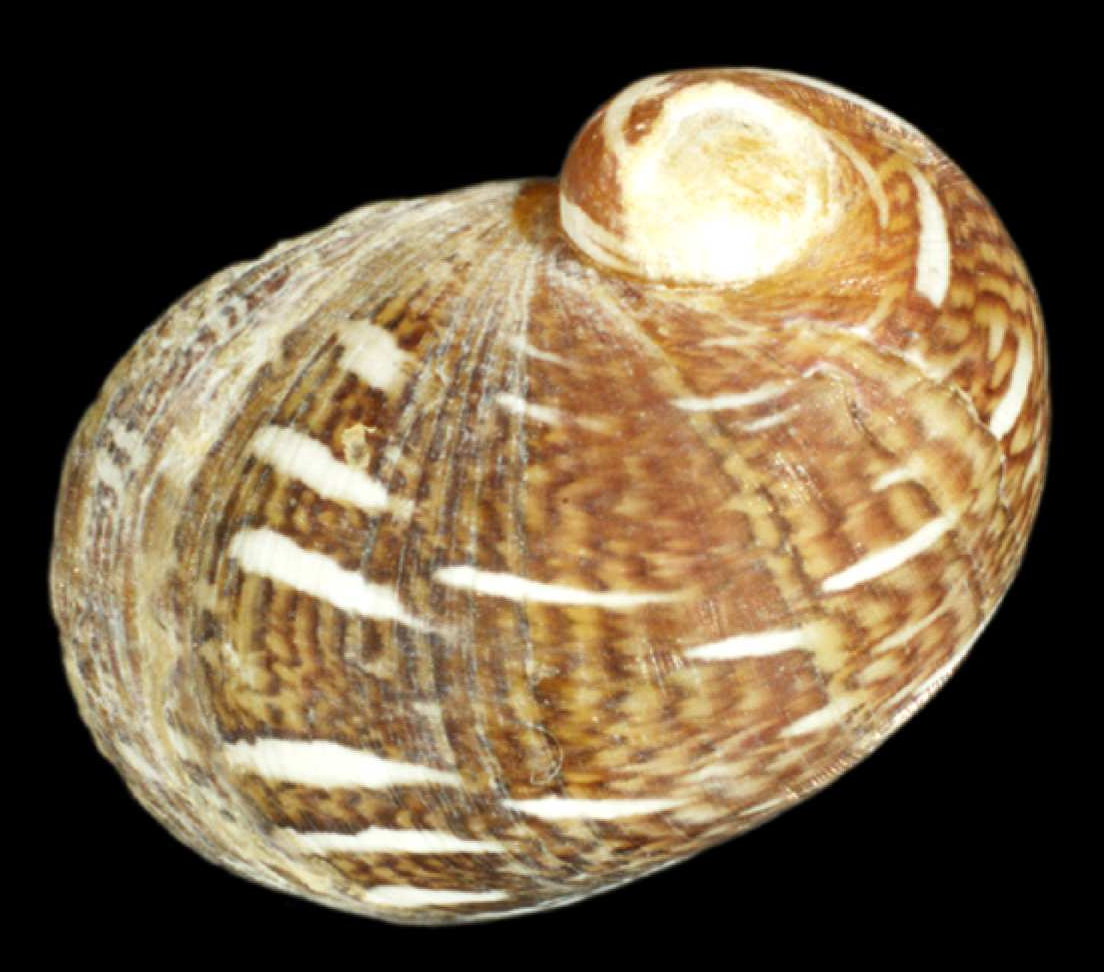 Photo of a shell of Thedoxus fluviatilis. Locality: Neretva River, Bosnia and Herzegovina.